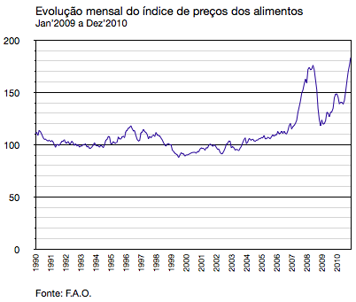 Food Price Index (FAO) 1990-2010